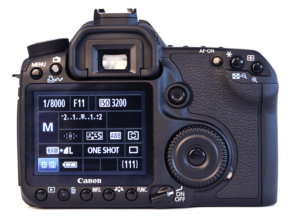 back of the Canon EOS 50D